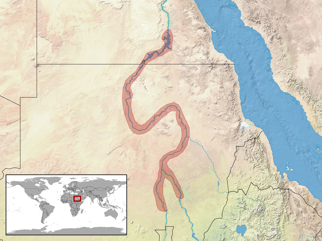 geographic distribution of Tropiocolotes nubicus (Native: Egypt; Sudan)